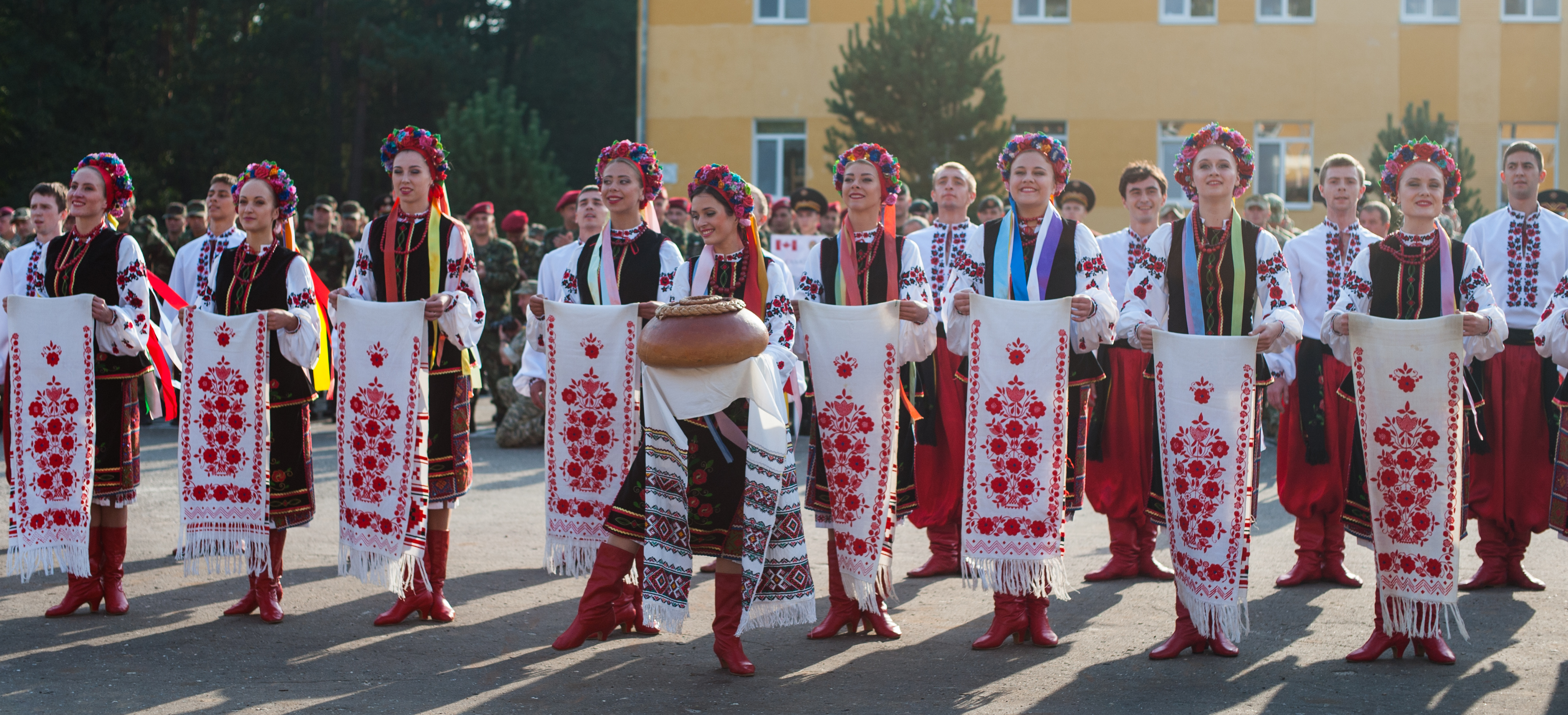 YAVORIV, Ukraine -- A Soldier from the Ukrainian military band stands with his counterparts before Exercise Rapid Trident’s opening ceremony here Sept. 15. Rapid Trident is an annual U.S. Army Europe conducted, Ukrainian led multinational exercise designed to enhance interoperability with allied and partner nations while promoting regional stability and security. (U.S. Army photo by Spc. Joshua Leonard)